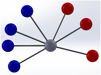 Neighbors nodes to V